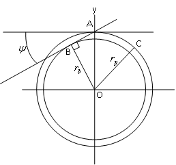 Base circle obtained from primitive circle of a spur gear